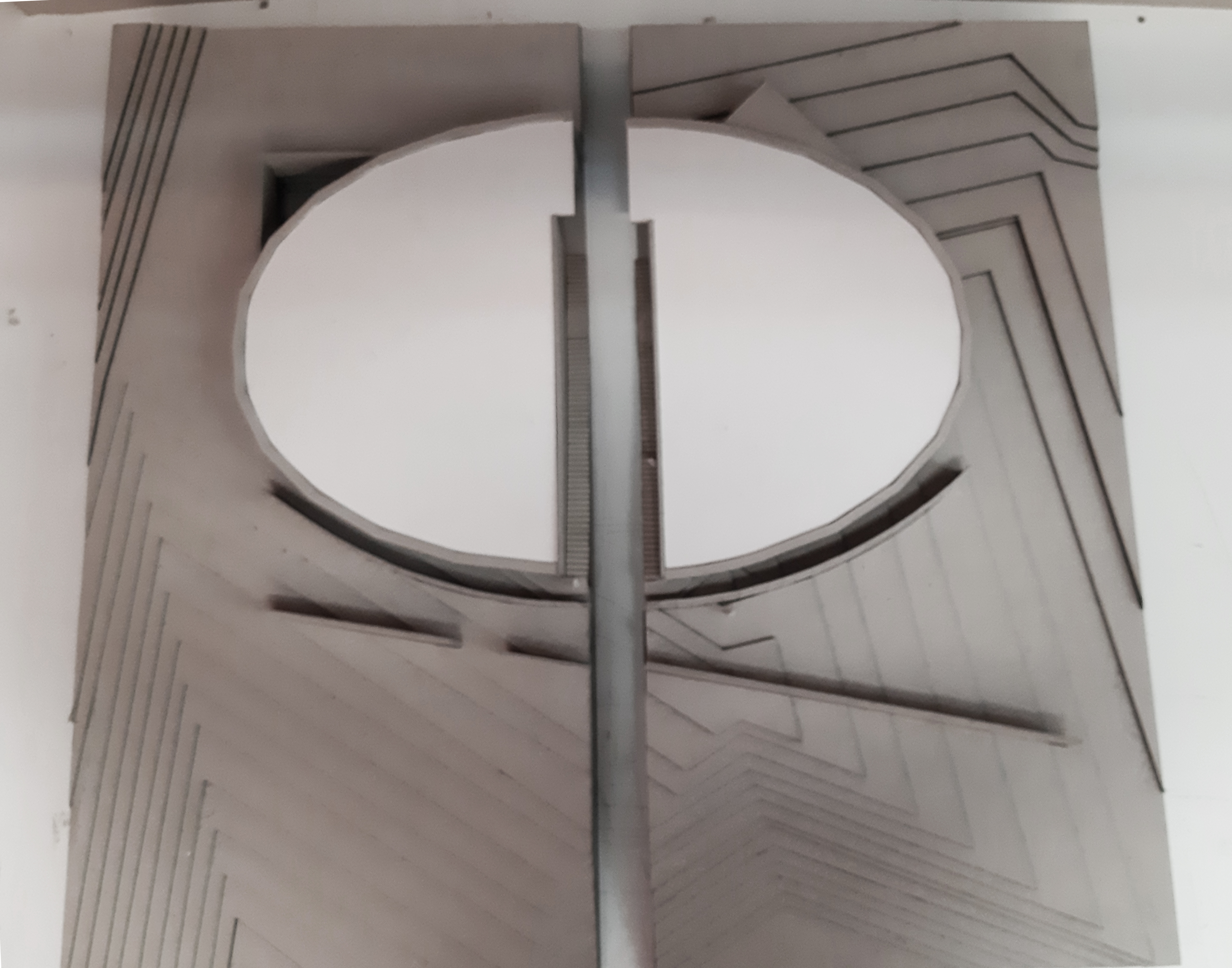 photo of model of the building "Water Temple" designed by the architect Tadao Ando